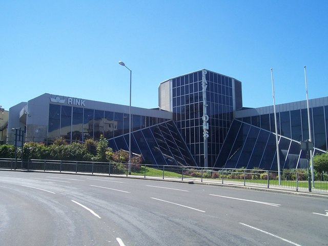 Plymouth : Plymouth Pavilions Refreshments, light snacks, breakfasts and lunches are available from Signatures Café between 9.30am and 5pm. The Pavilion shop is open daily from 9.30am until 5pm, stocking a range of confectionery, soft drinks and beverages, as well as a selection of swimwear. The Pavilions also houses the Ice Rink and Fun Pool.